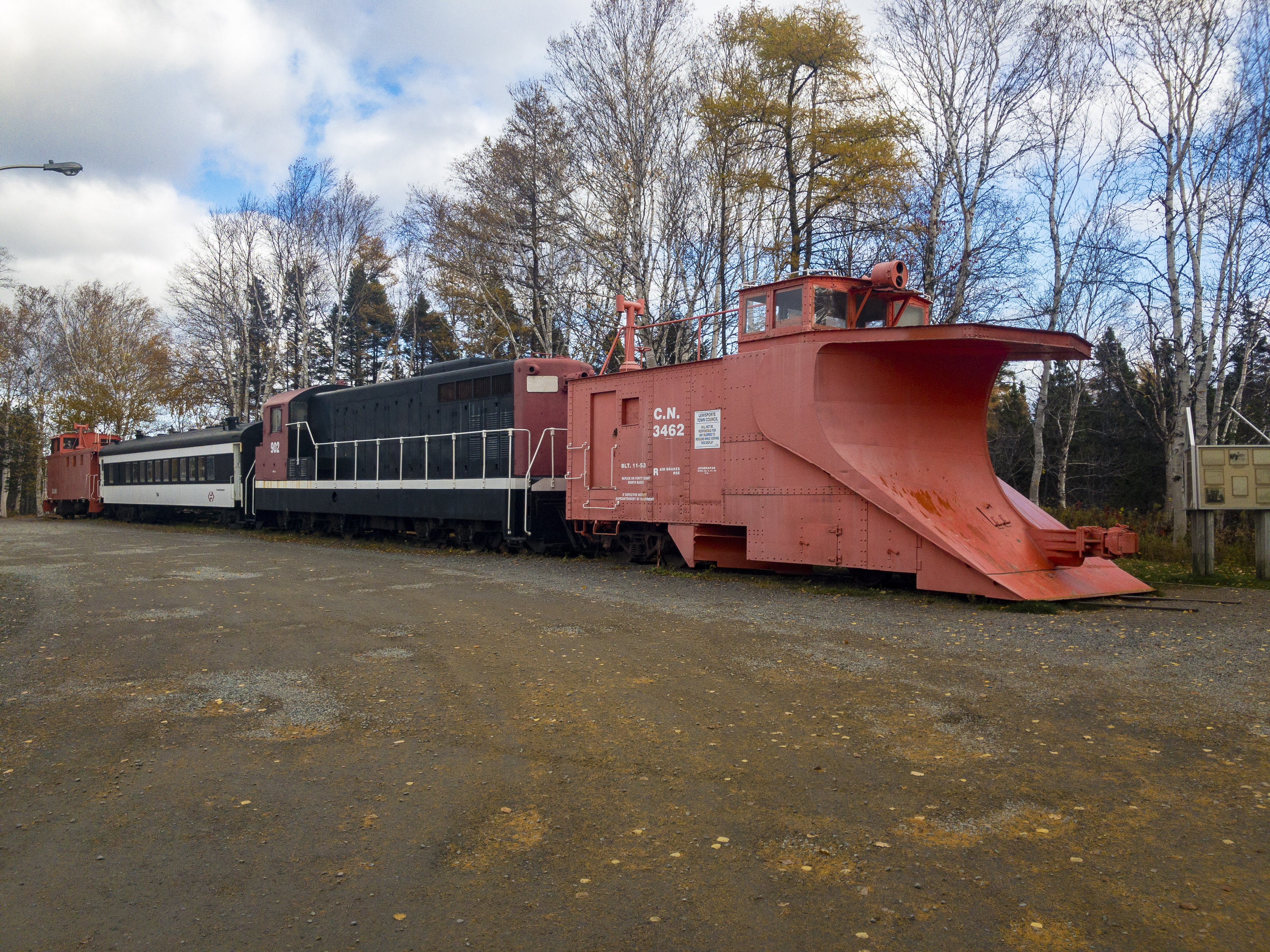 The Engine, plow, carriage, and caboose of the Lewisporte Train Park, commemorating the Newfoundland Railway.